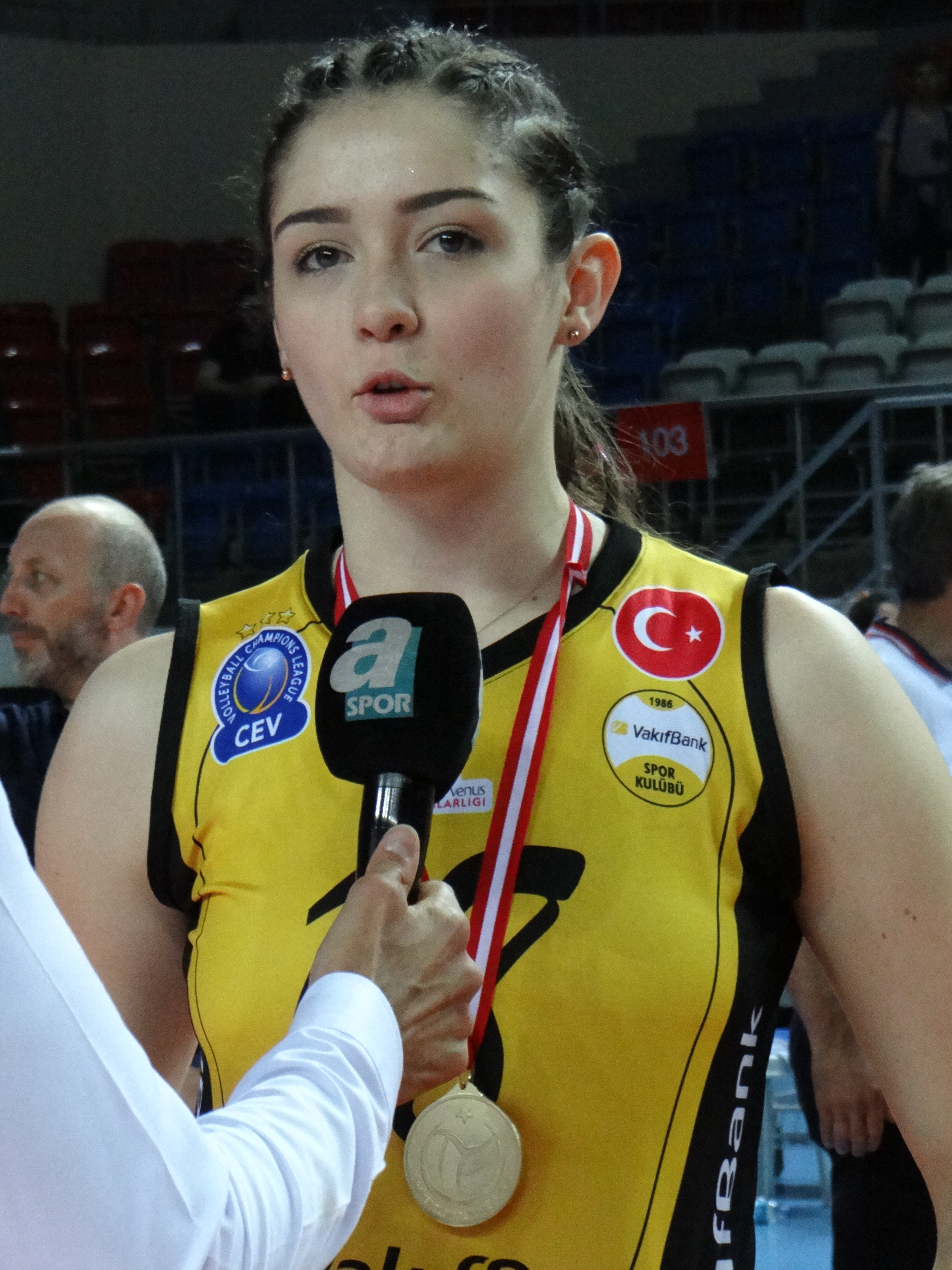 Zehra Güneş 18 Vakıfbank SK TWVL 20180426